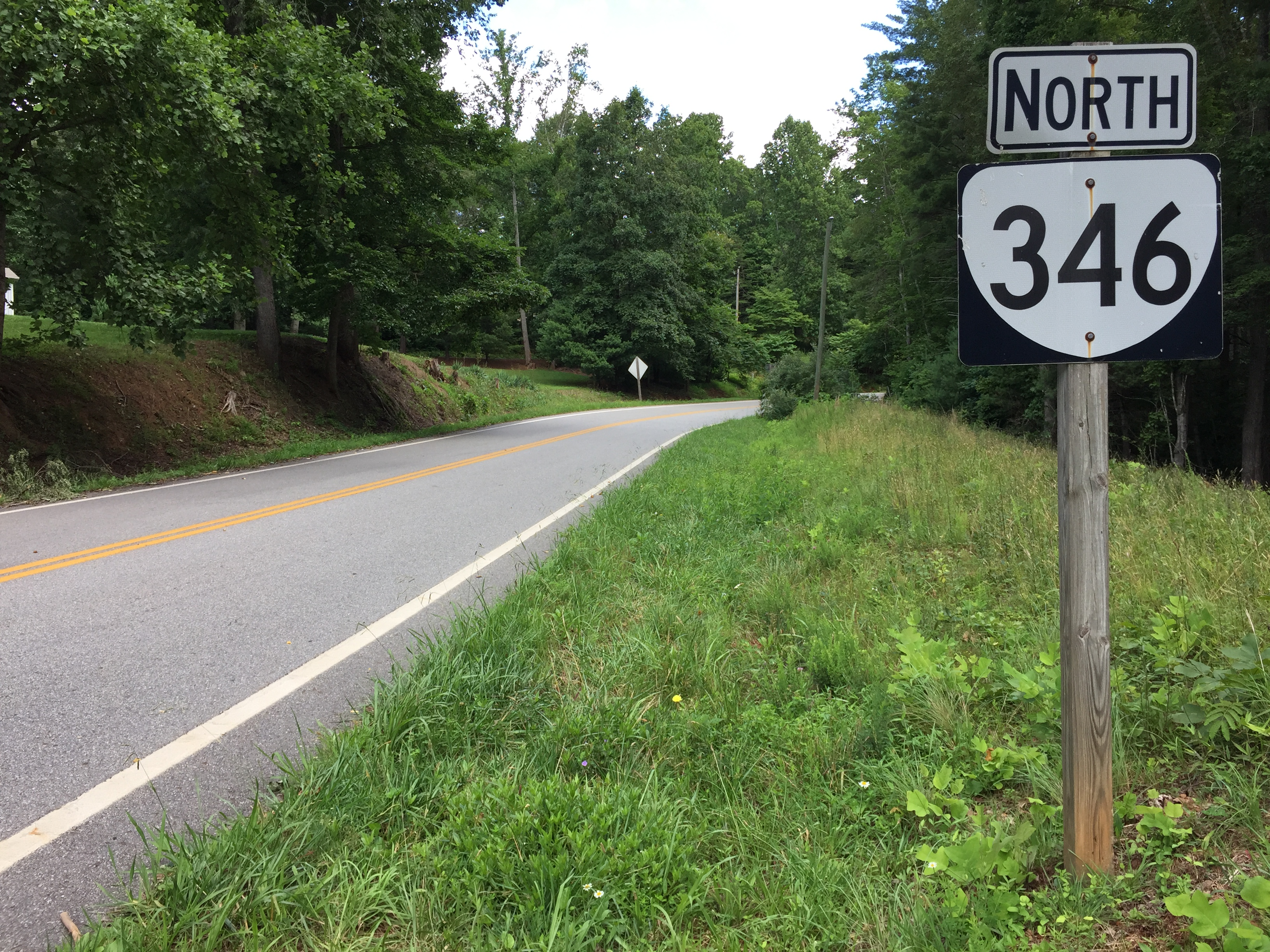 View north along Virginia State Route 346 (Fairystone Lake Drive) at Virginia State Route 57 (Fairystone Park Highway) in northeastern Patrick County, Virginia